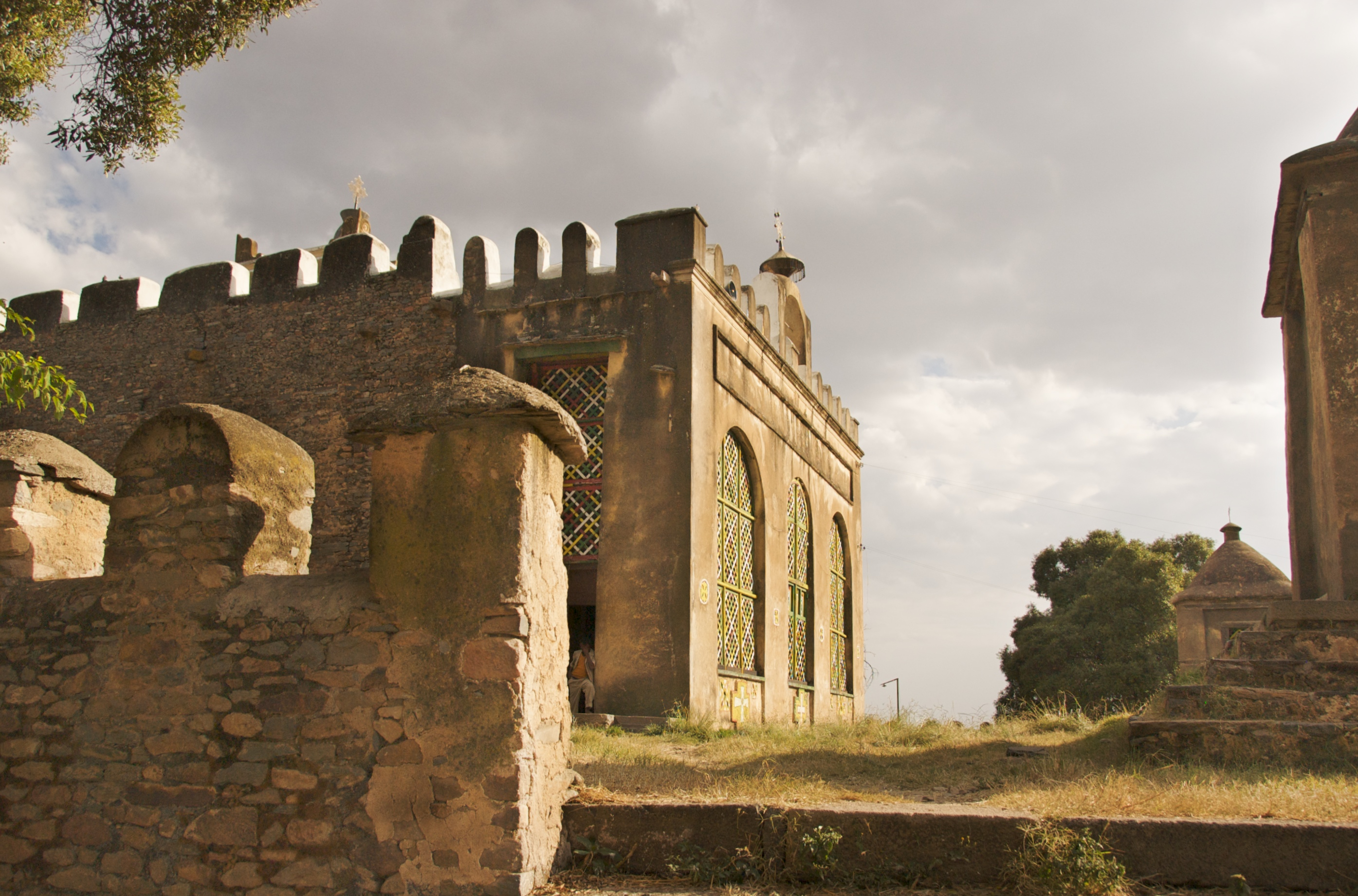 The old Church of St. Mary of Zion stands proud in the dramatic late afternoon sun. Axum, Ethiopia.